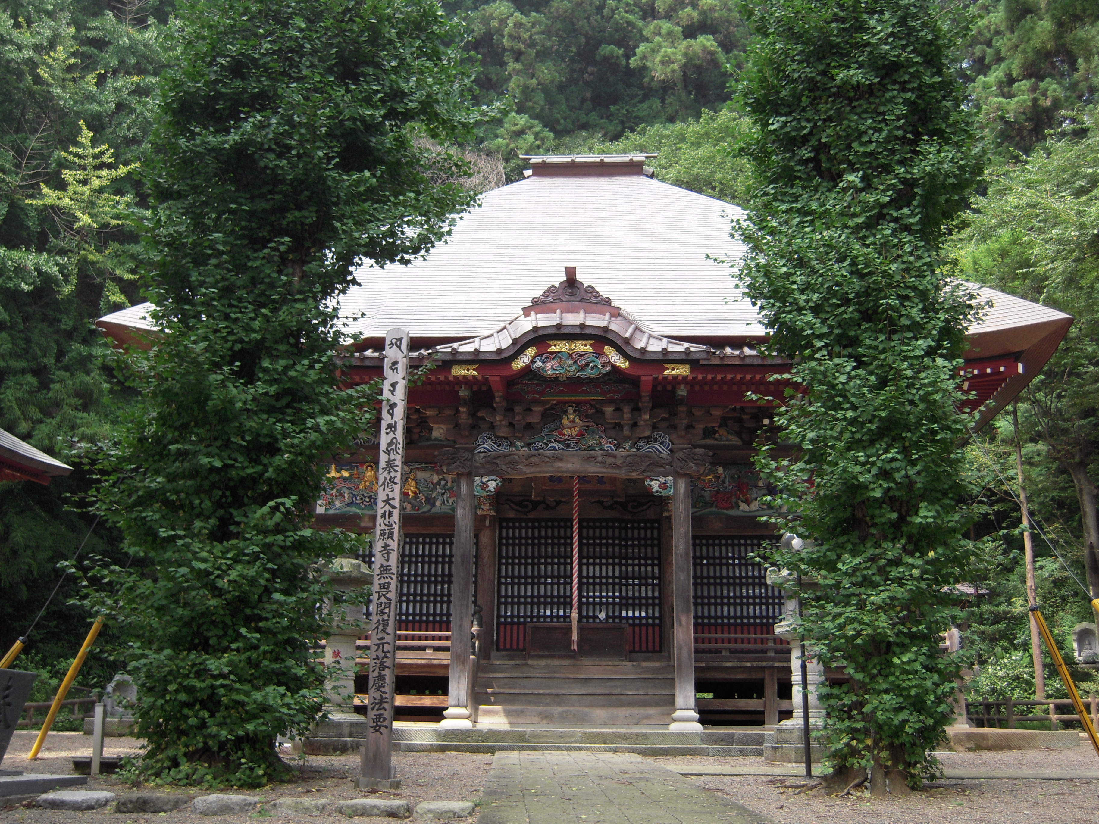 Daihiganji Kan-non do, Akiruno